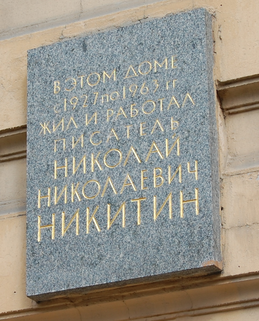 Nikitin N.N. Plaque in Saint Petersburg